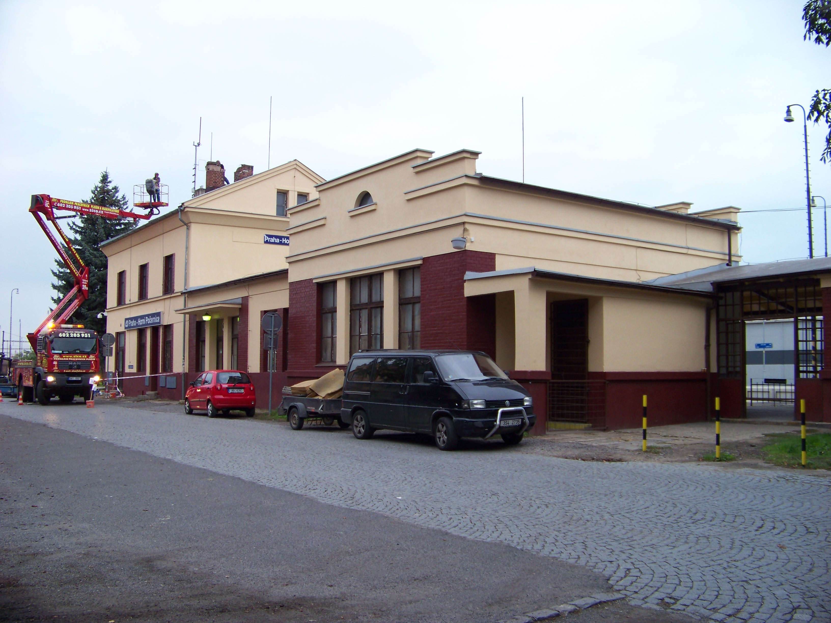 Prague-Horní Počernice, Czech Republic. Libuňská 632/1, train station Praha-Horní Počernice.